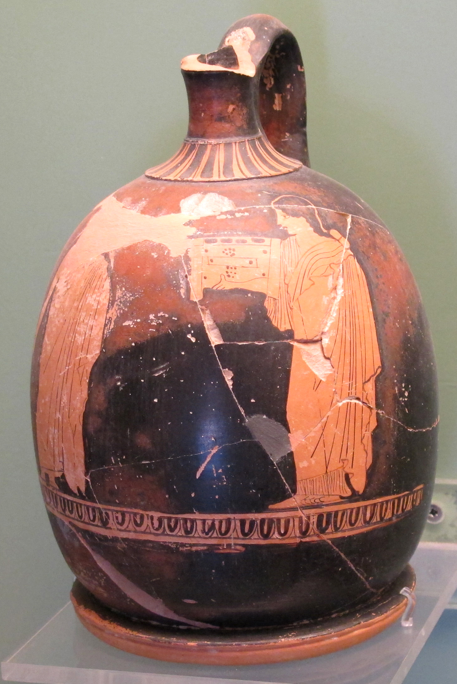 Lekythos attico a figure rosse del pittore di washing, da koufos, T471, 450-425 ac. ca